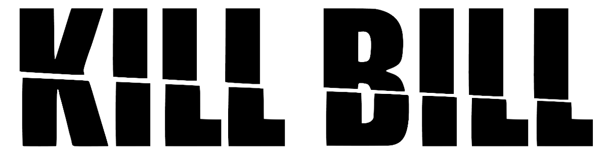 Quentin Tarantino's Kill Bill logo